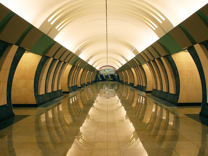 Photograph of the Marina Rosche metro station in Moscow, Russia